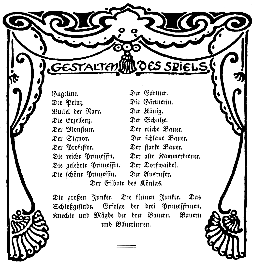 Ludwig Thuille - Gugeline - character list from the original text book - Berlin 1899 Author: Otto Julius Bierbaum Book decorations by Emil Rudolf Weiß